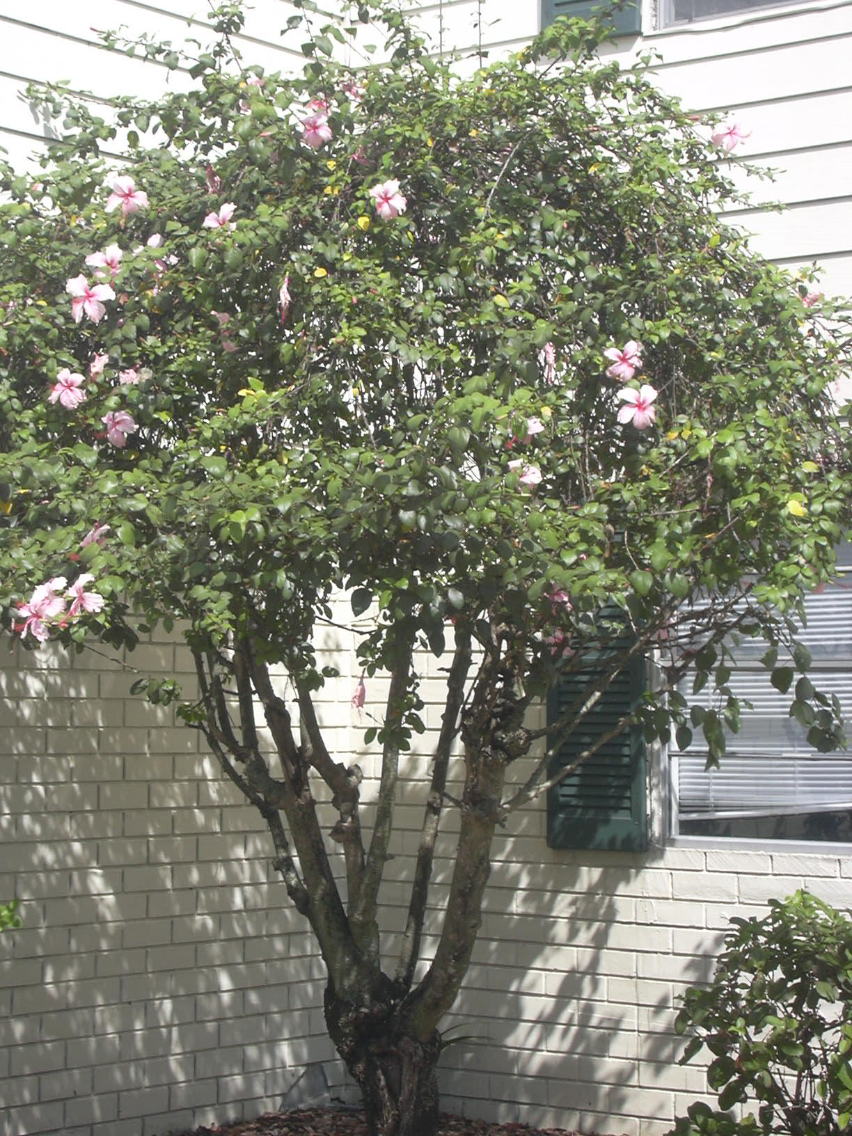 Hibiscus rosa-sinensis (habit). Location: Florida, Sarasota